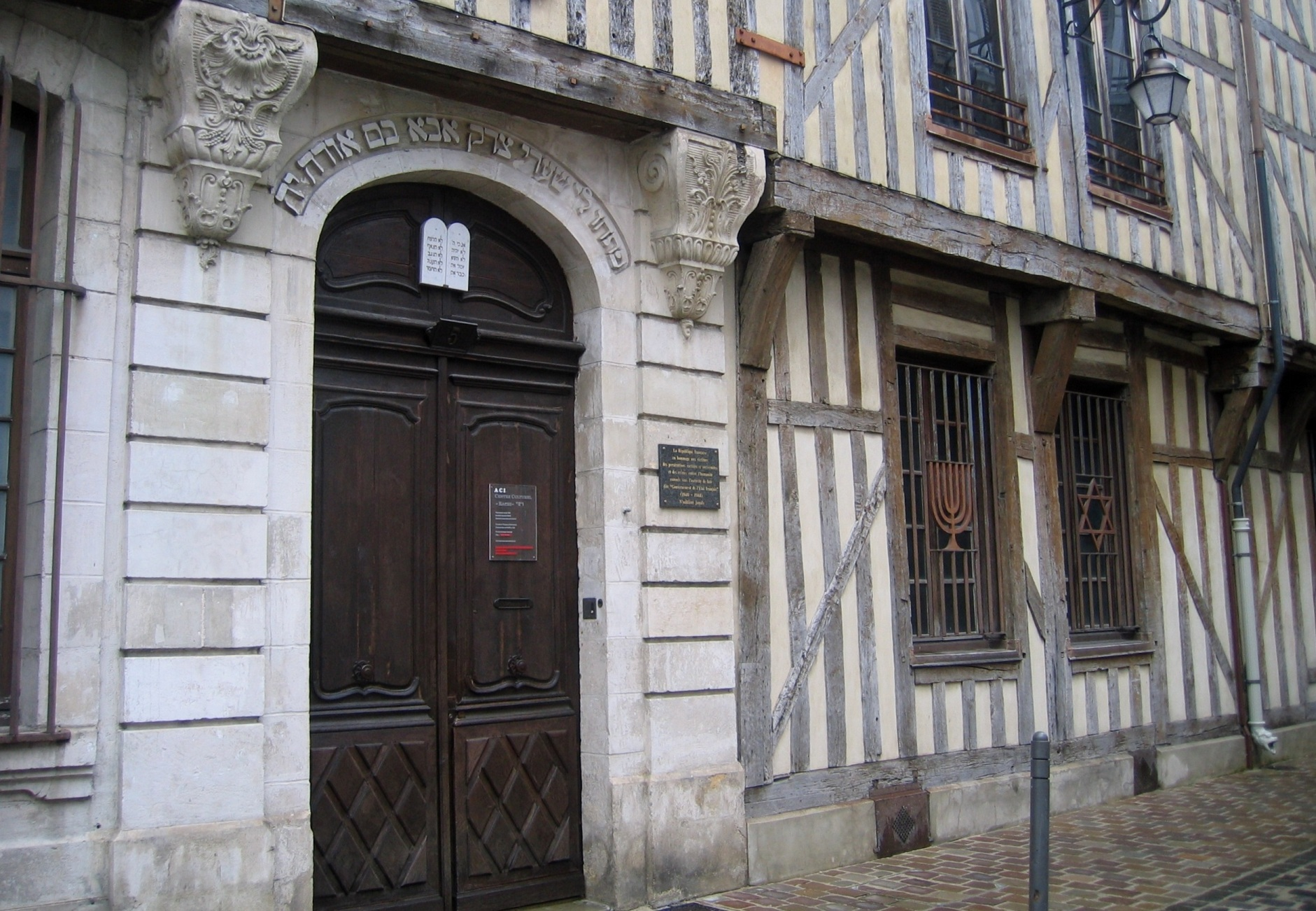 Aube Troyes Synagogue